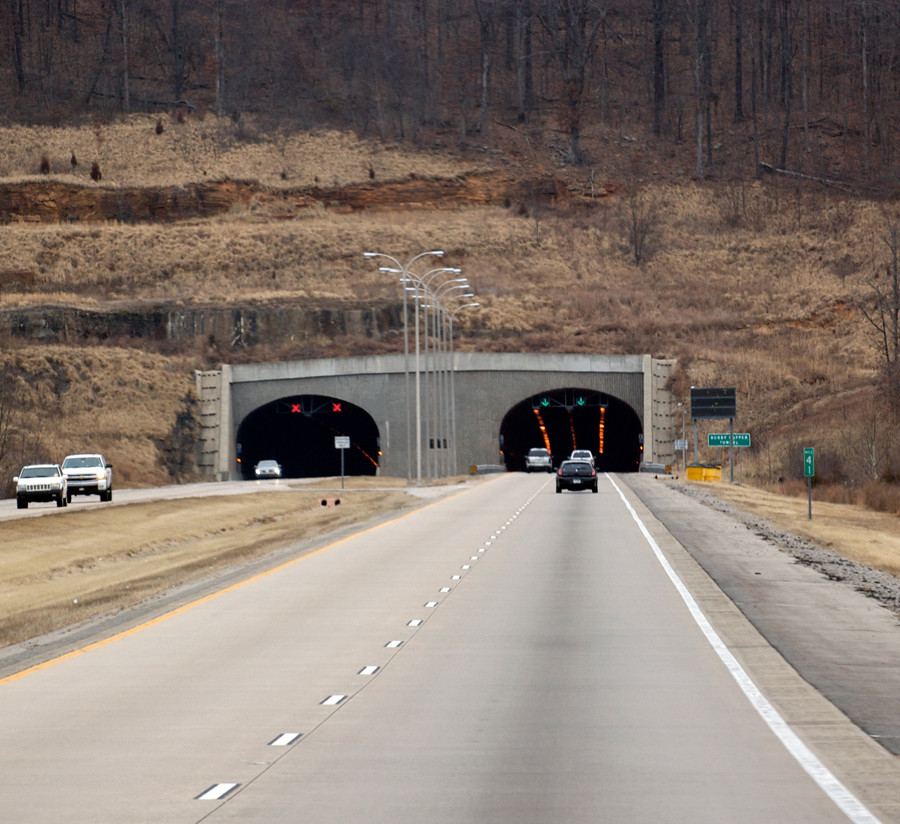 Approaching the south entrance of the Bobby Hopper Tunnel heading towards Fayetteville, AR.